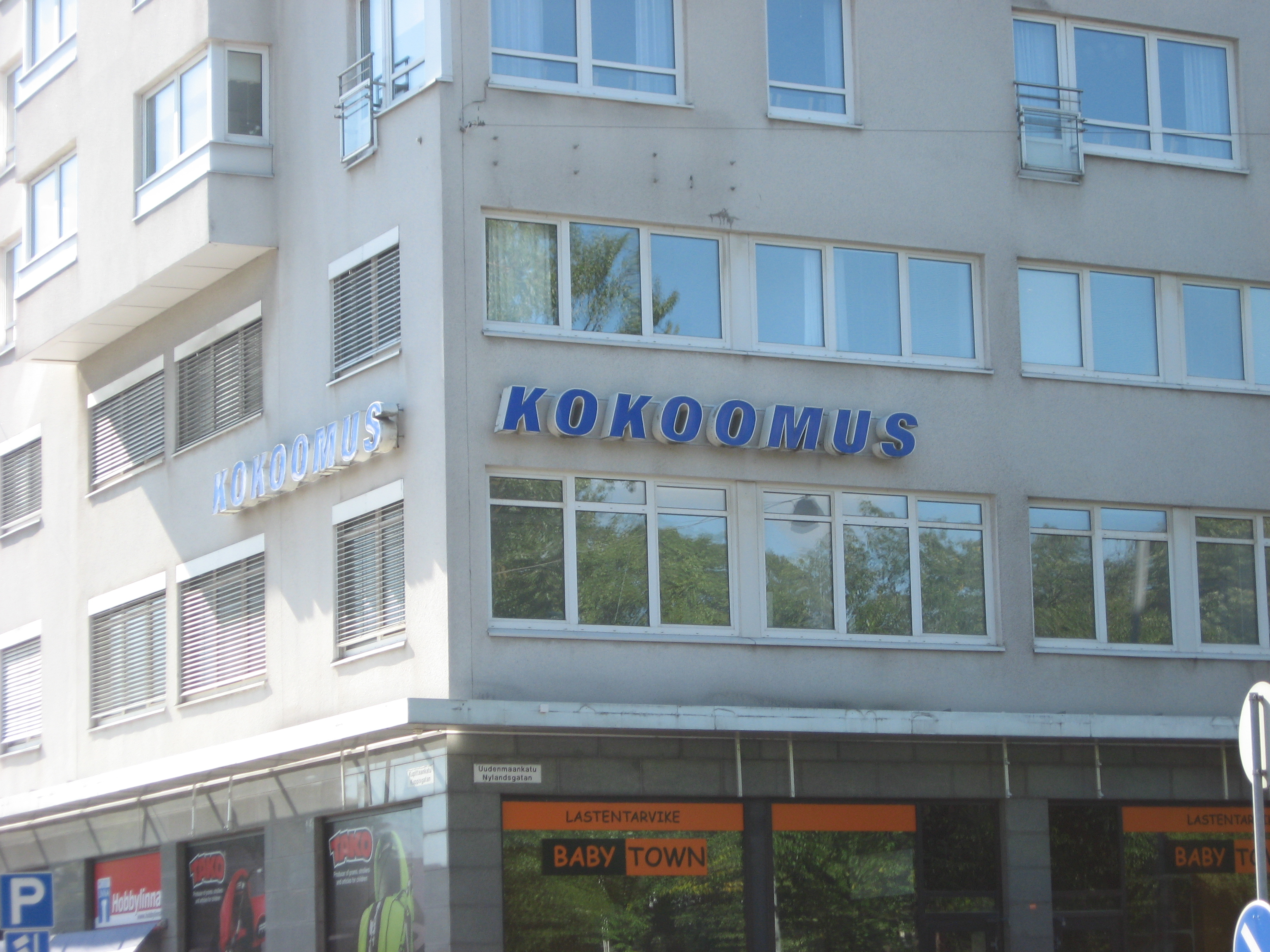 National Coalition Party office in Turku